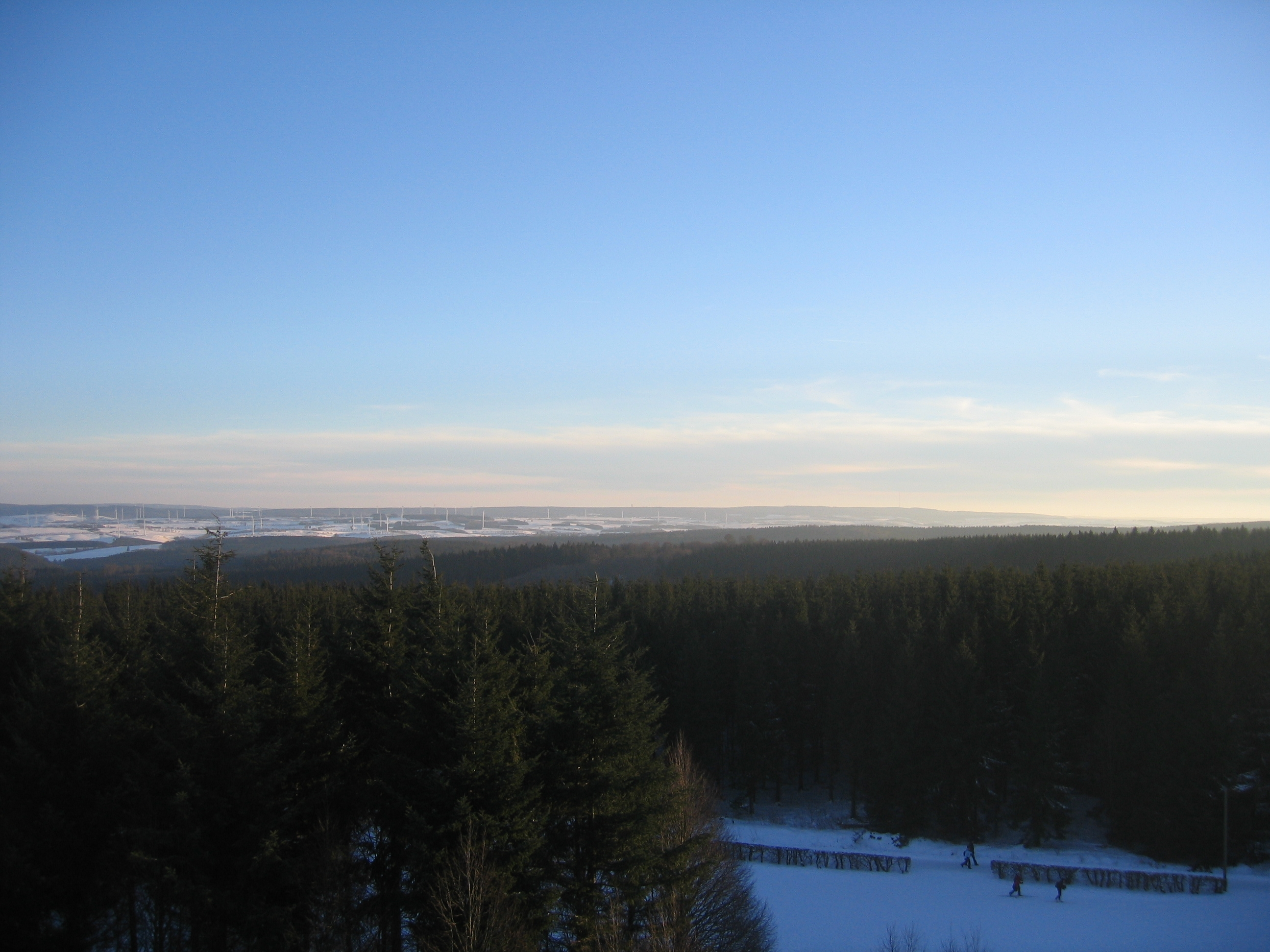 The rather unassuming ridge of the Schneifel in the Eifel Mountains of western Germany on the Belgian border. Photographed from the Weißer Stein